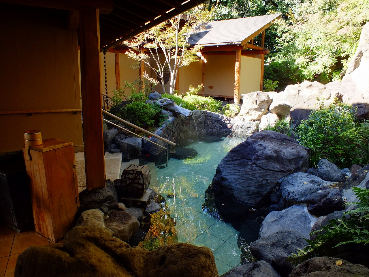 Yumotokan-Ogoto onsen Rotenburo 露天風呂 湯幻逍遥-Yugenshoyo